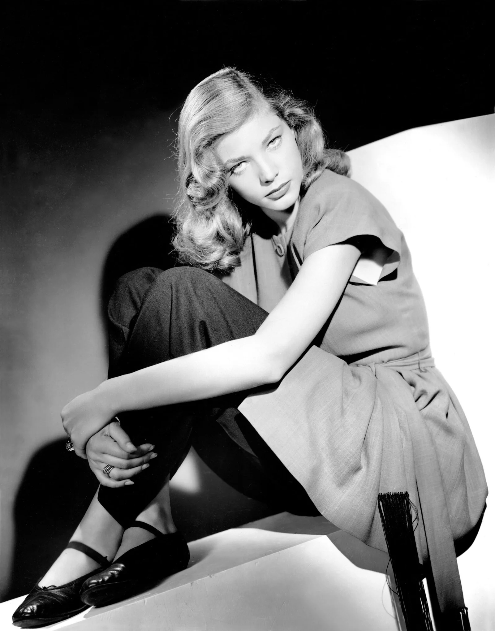 Photo of Lauren Bacall in 1945.